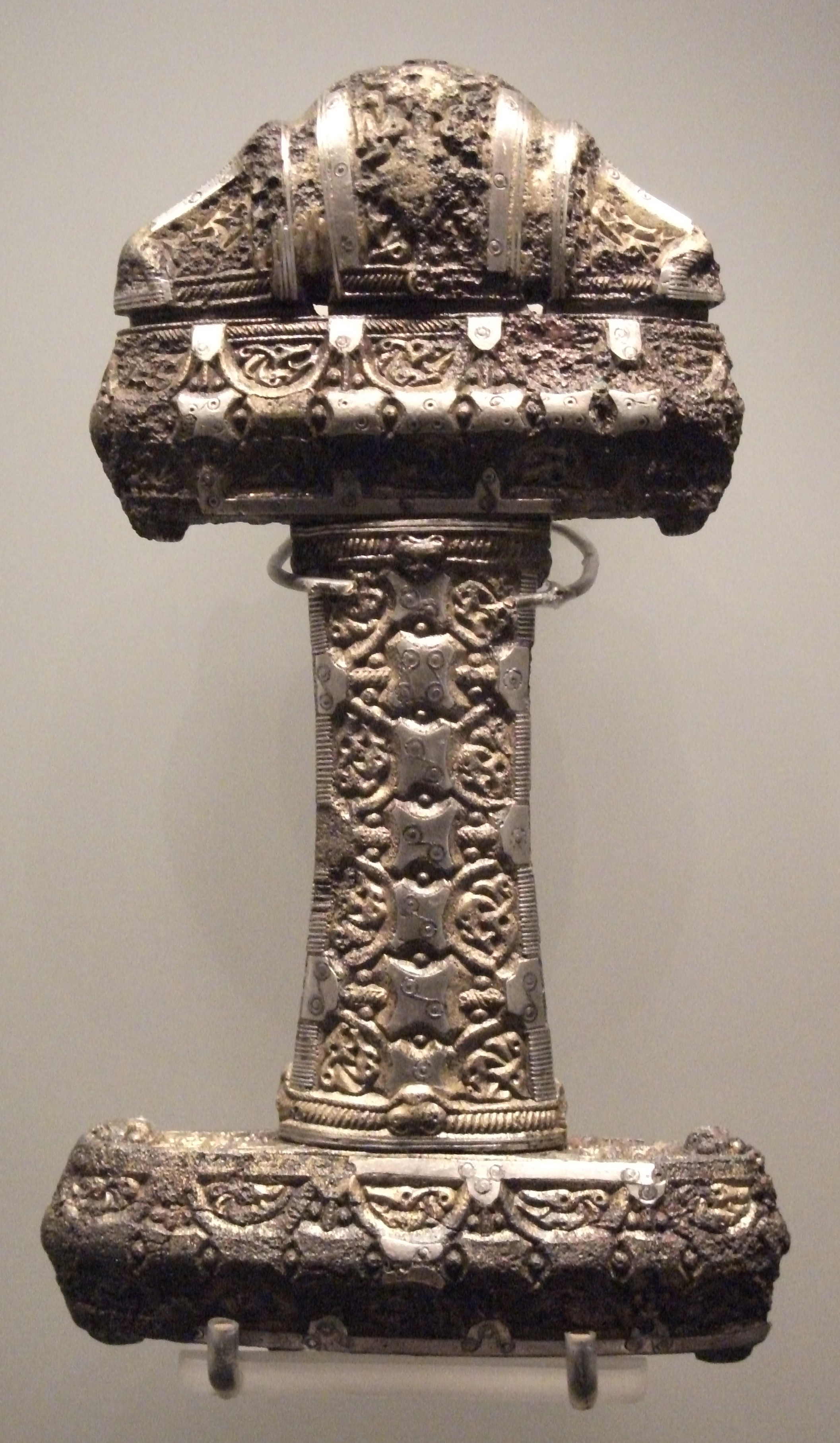 Museum of Scotland, Viking sword hilt, 9th century, from Kildonnan, Eigg [1]. Canmore record for its discovery site - [2]